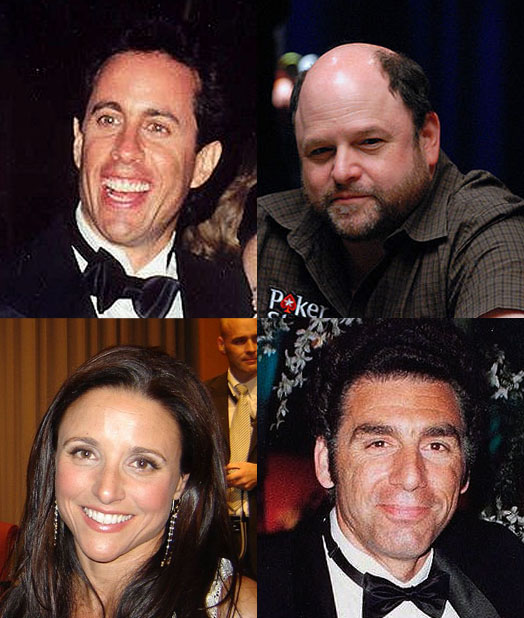 Jerry Seinfeld (upper left); Jason Alexander (upper right); Michael Richards (lower right); Julia Louis-Dreyfus (lower left)